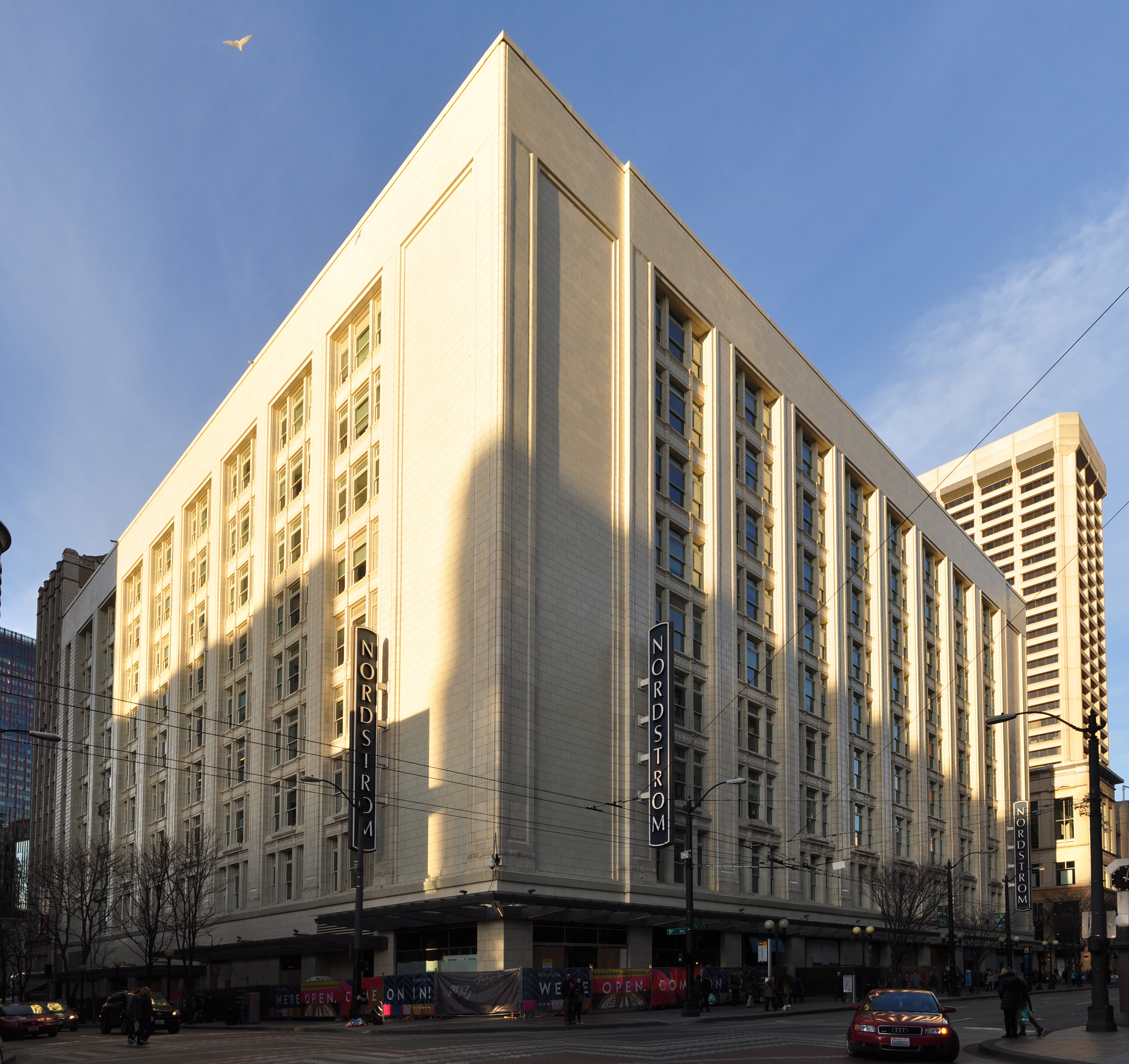 Nordstrom flagship store (formerly Frederick and Nelson flagship store), Seattle, Washington, USA. The building is an official city landmark. This image was created with Hugin.